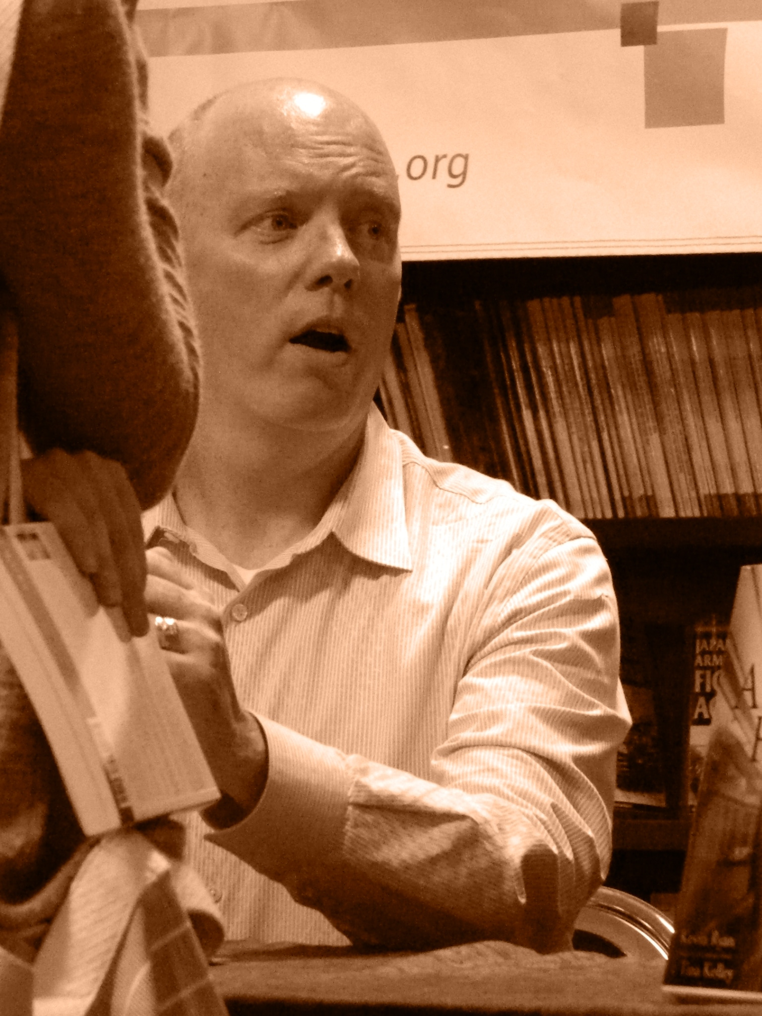 Kevin Ryan at New York Barnes & Noble Sept. 30, 2013.